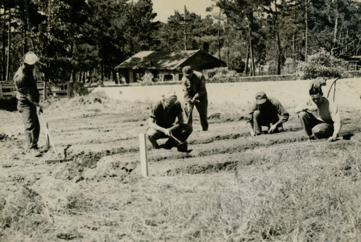 Soldiers & sailors plant Oriental vegetables in the garden at the Civil Affairs Staging Area (CASA) - Presidio of Monterey